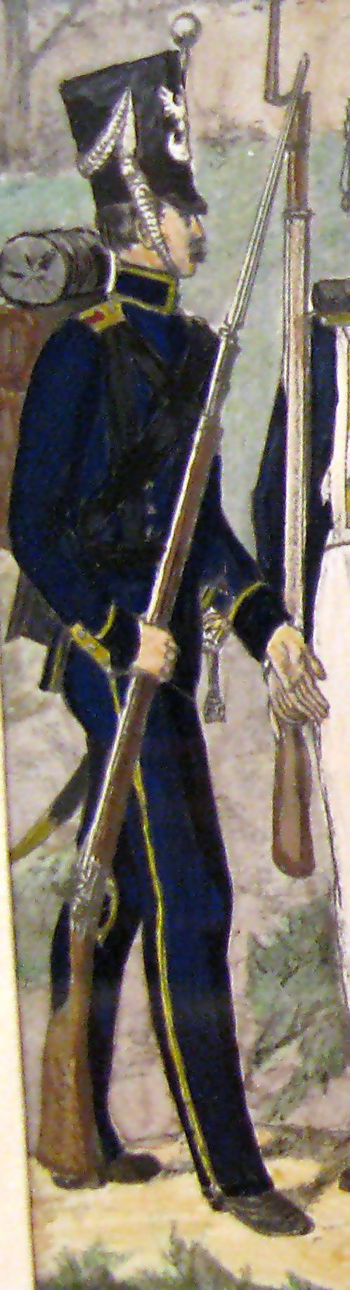 2nd Chasseurs à Pied Regiment of Polish Army of November Uprising